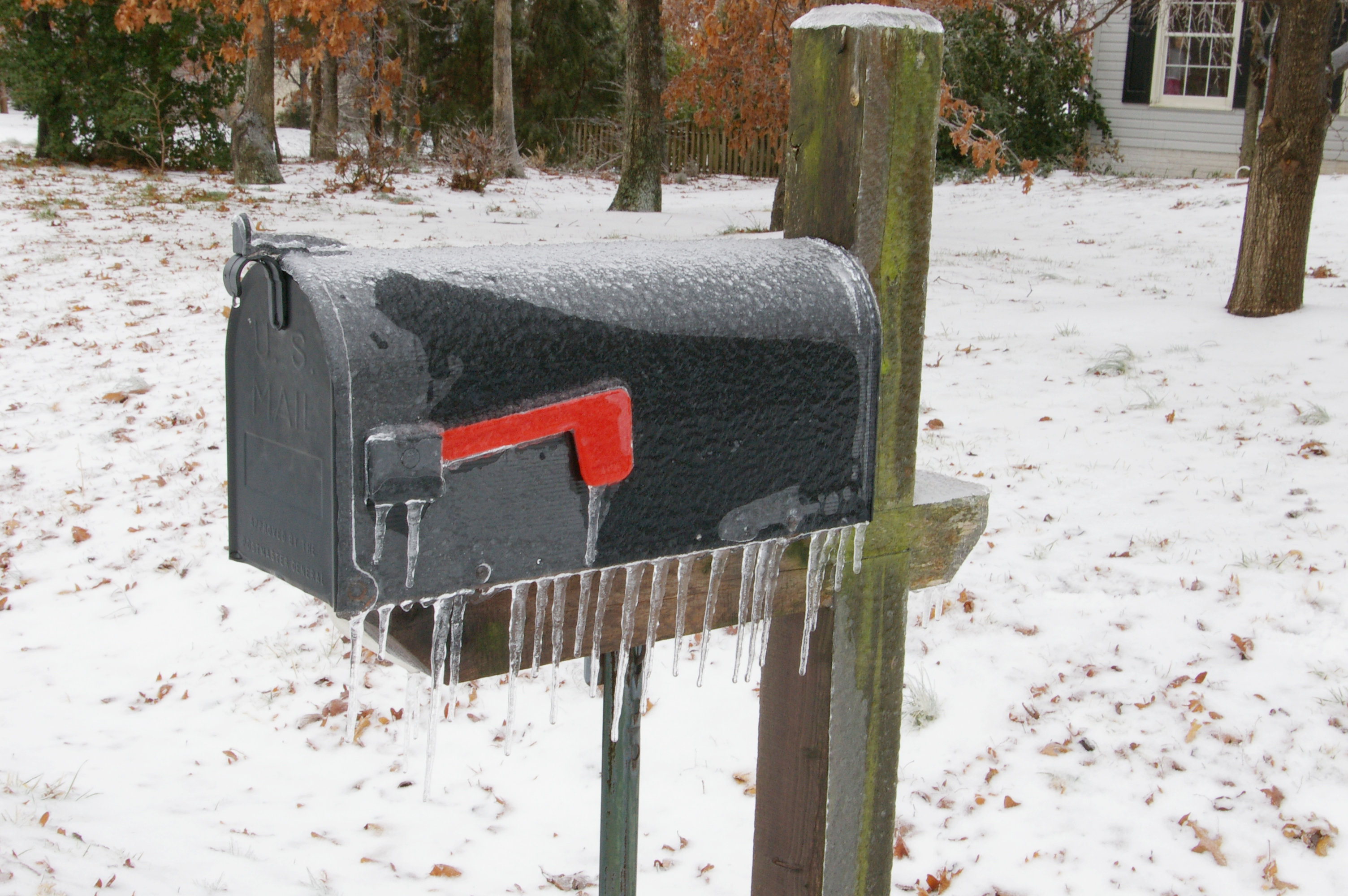 Photo of ice-covered mailbox in Spotsylvania County, Virginia, USA. February 14, 2007. Photograph taken by Joy Schoenberger with a Pentax K100D Digital SLR camera.